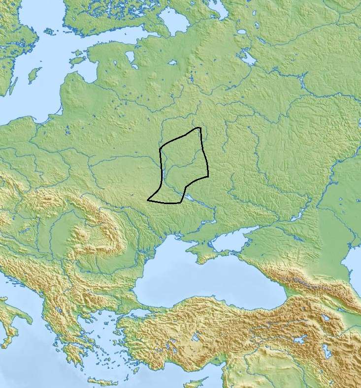 Map of the Middle Dnieper culture, based on a map printed at page 381 in Encyclopedia of Indo-European Culture, which was edited by J. P. Mallory and Douglas Q. Adams, and published by Taylor & Francis in 1997.